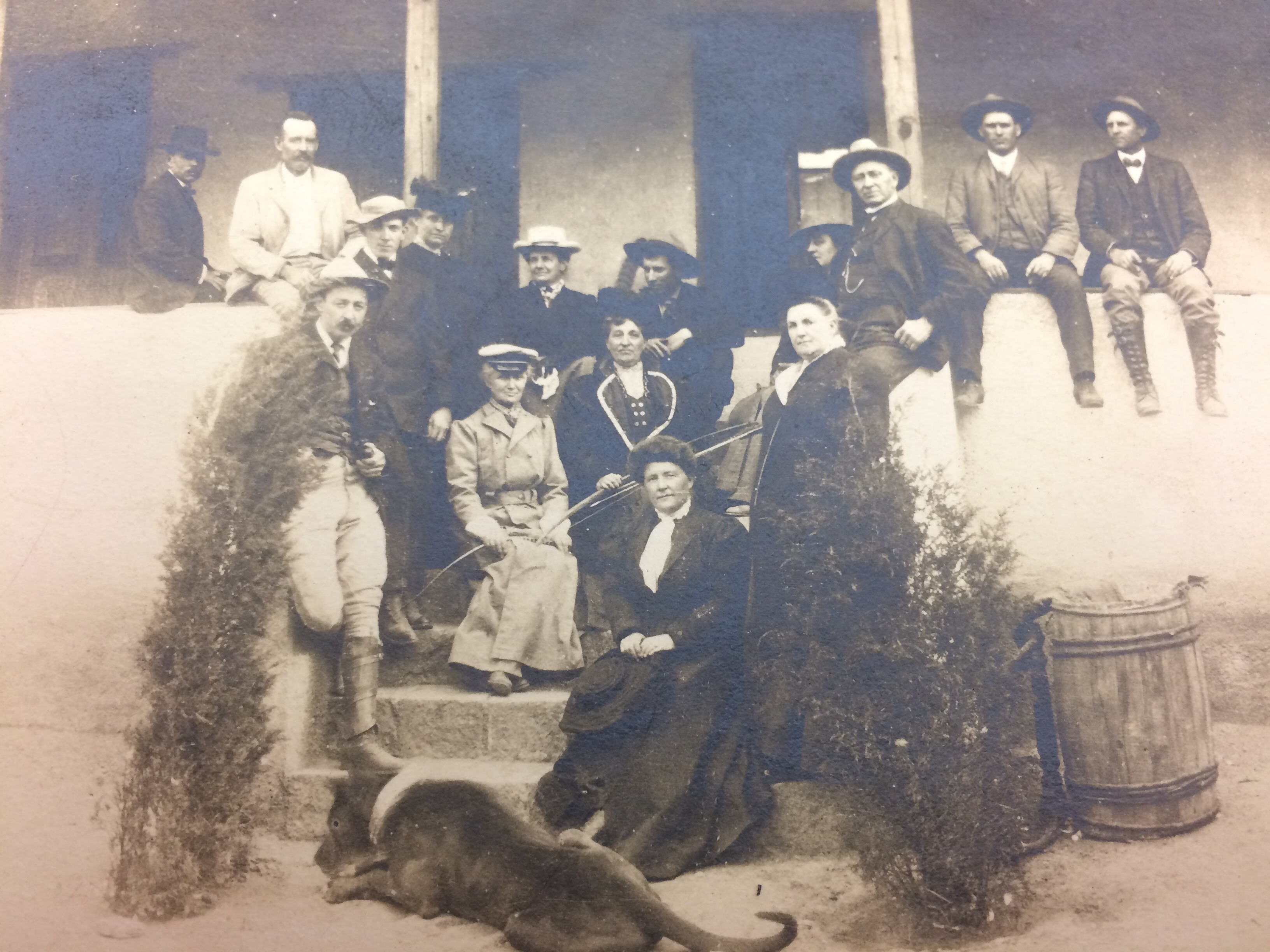 The Hyslop family in the early 1900s.